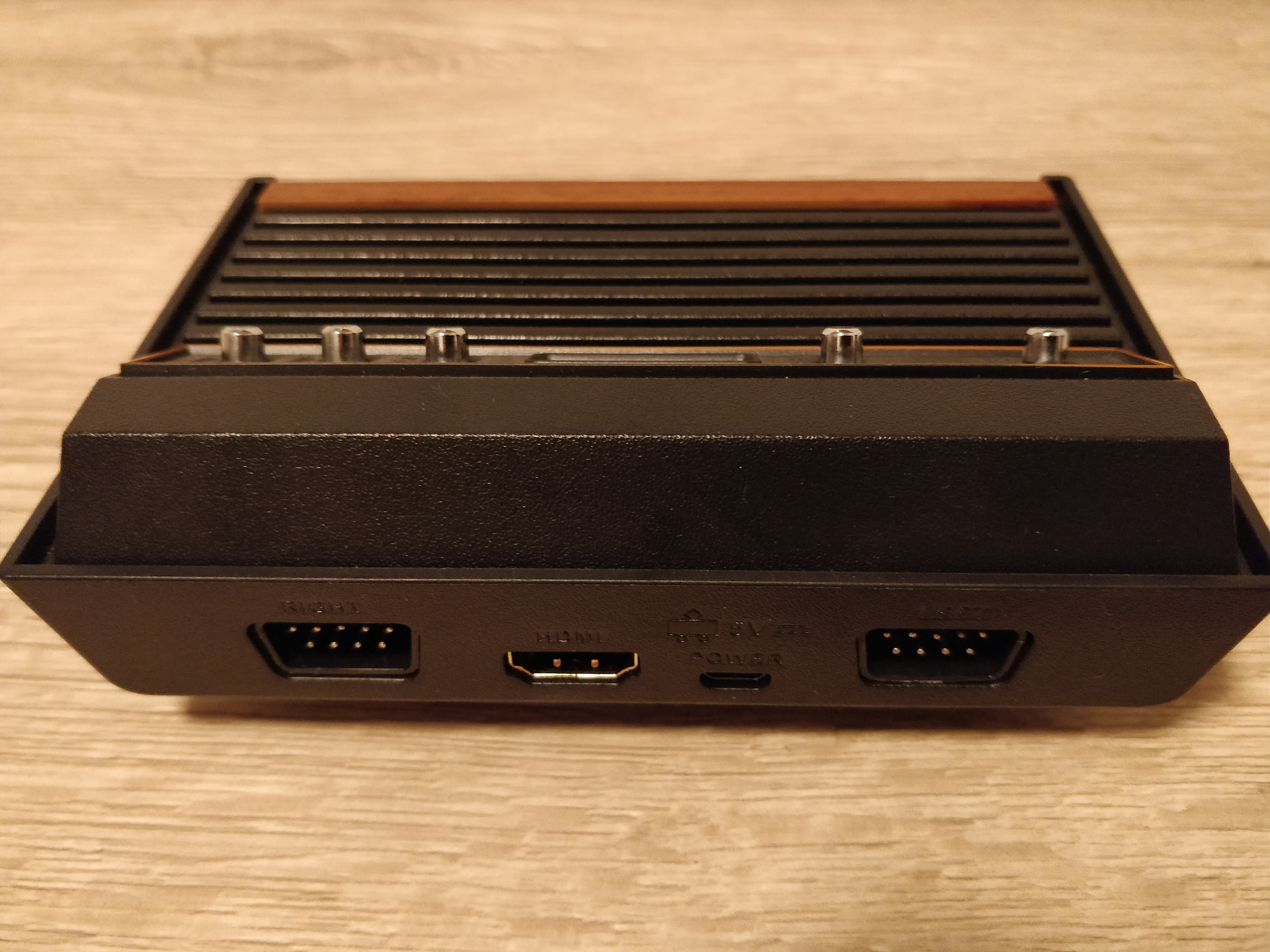 Atari Flashback X Deluxe video game console